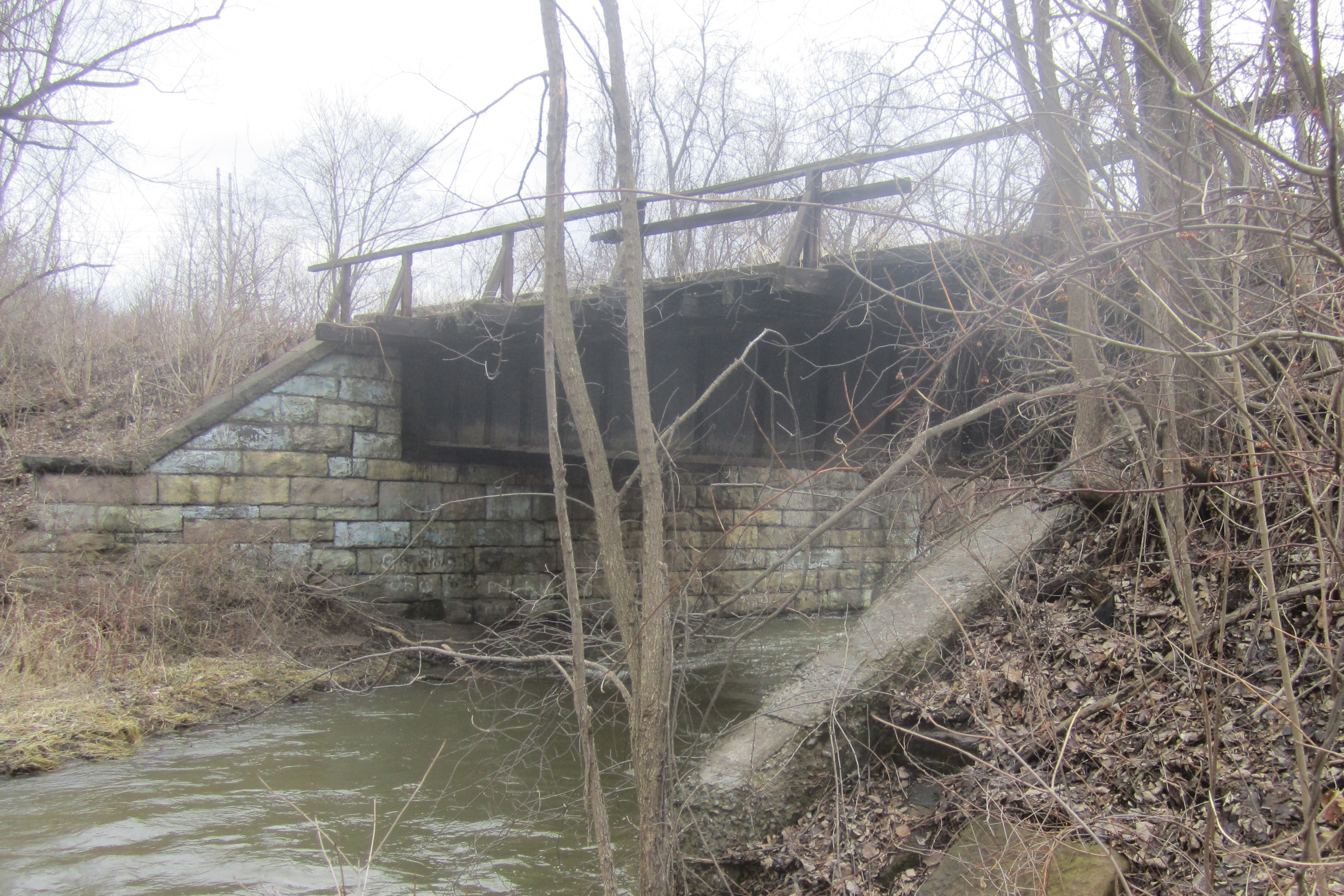 The Anthonk Kill near its confluence with the Hudson River in springtime